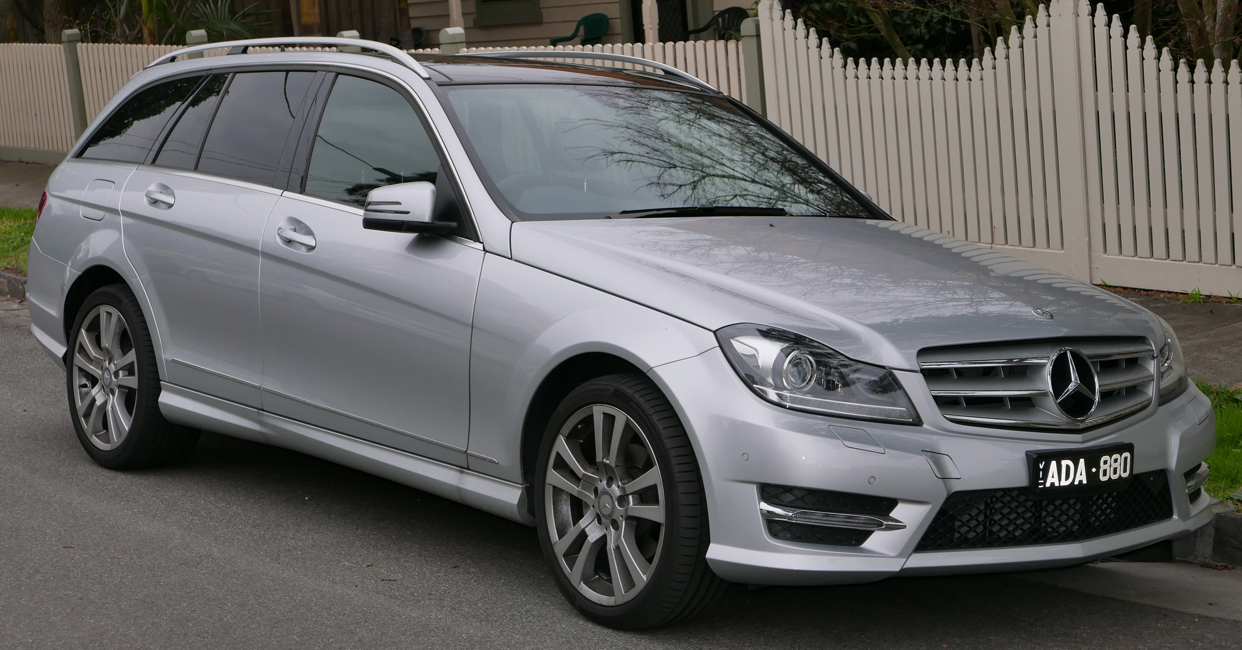 2014 Mercedes-Benz C 250 CDI (S 204) Avantgarde station wagon. Photographed in Kew, Victoria, Australia. Vehicle registration enquiry resultsJurisdictionVictoriaRegistrationADA880Chassis codeWDD2042032G317314Engine code6519113213431Compliance date2014-04Year of manufacture2014